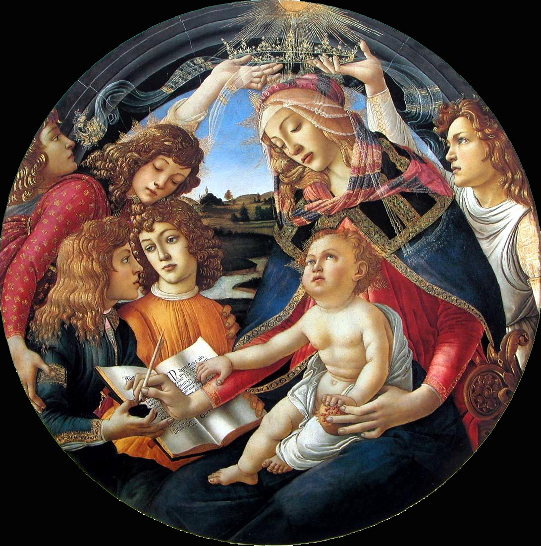 Magnificat Madonna